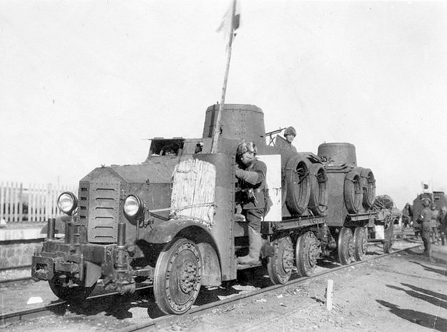 A Type 91 broad-gauge railroad tractor is hooked to another Type 91 broad-gauge railroad tractor. In case of an emergency or attack, the train could accelerate faster by having the tractors facing different directions.